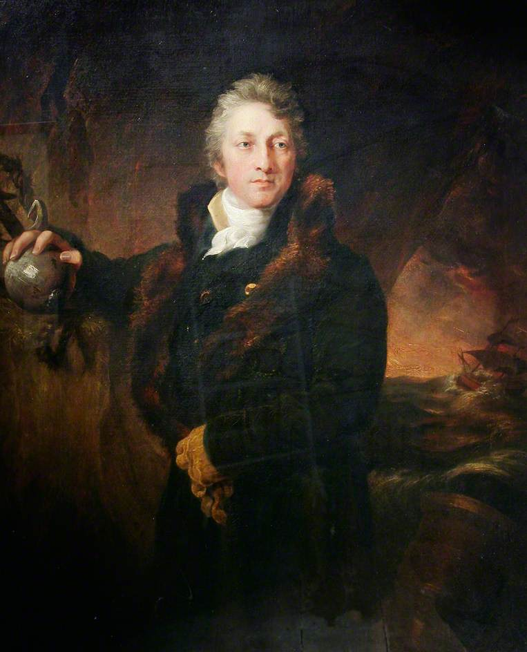 George William Manby (1765–1854), British inventor.